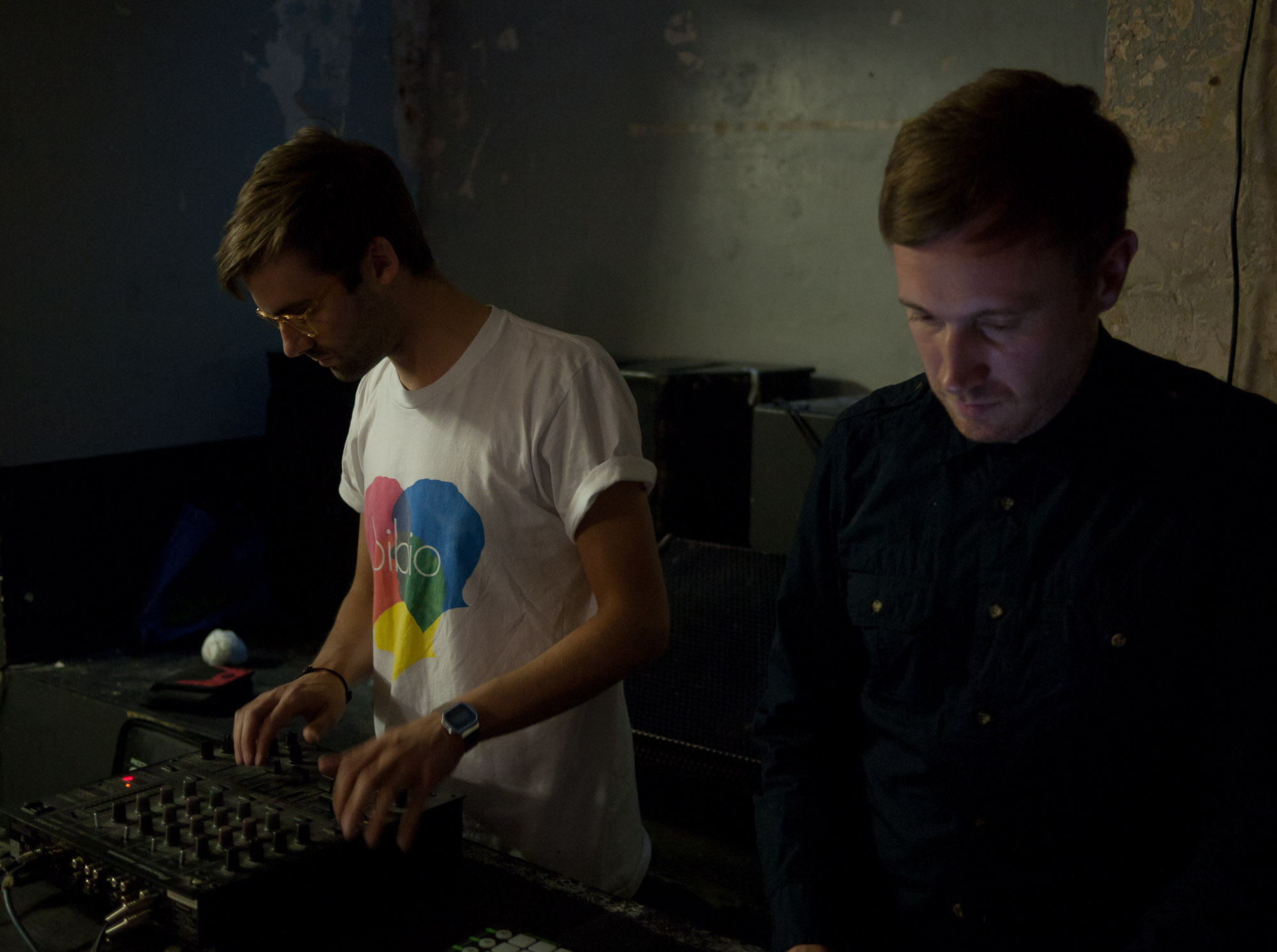 Photograph showing Richard Roberts and Andrew Harber of the band Letherette soundchecking at CAMP London, before a show.